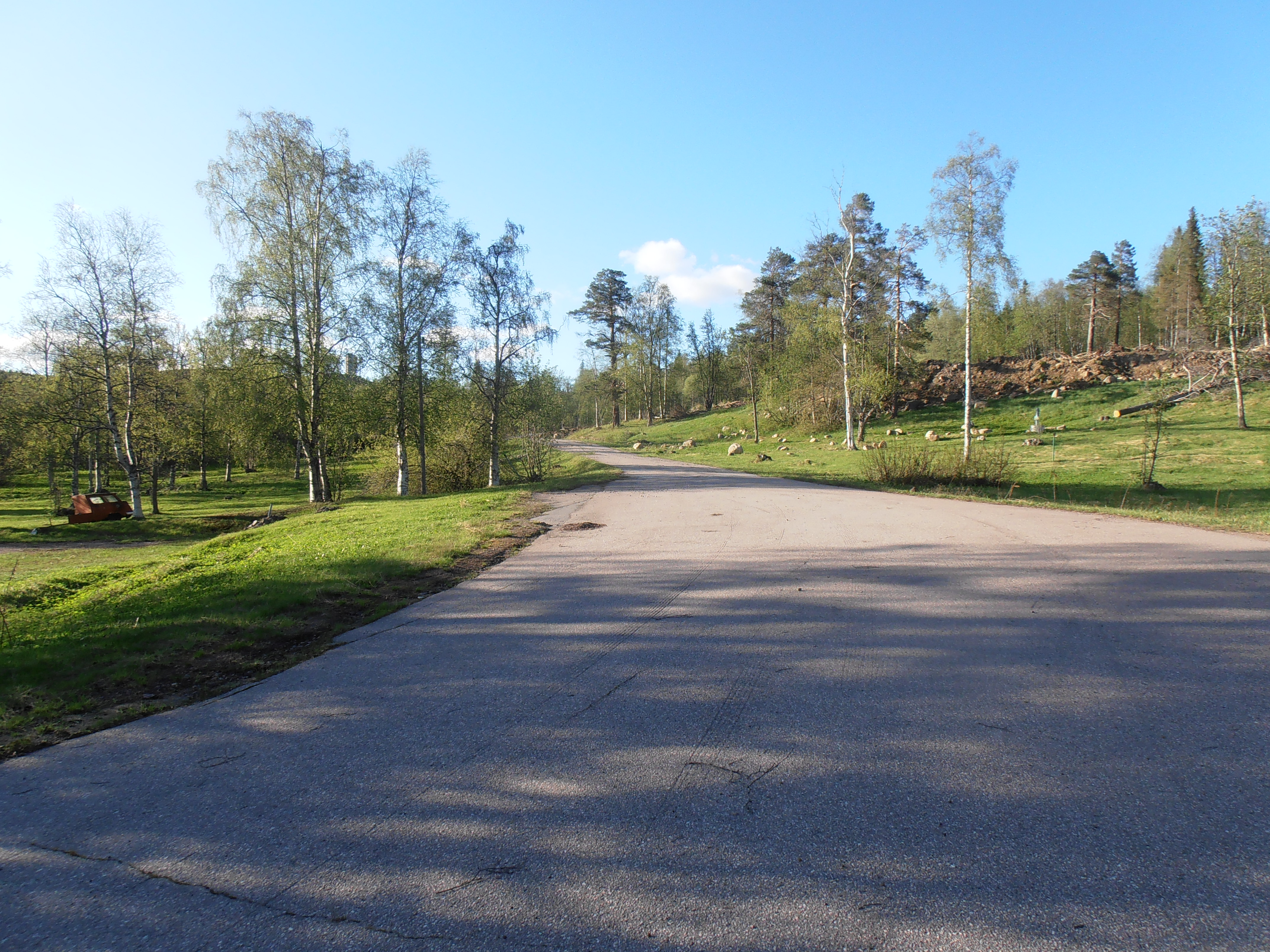 Bolagsvägen (closed) in Malmberget